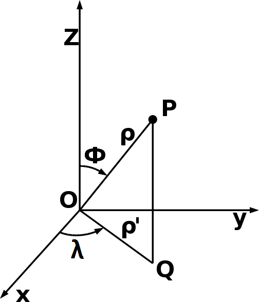 diagram of spherical coordinates, a type of three-dimensional reference frame